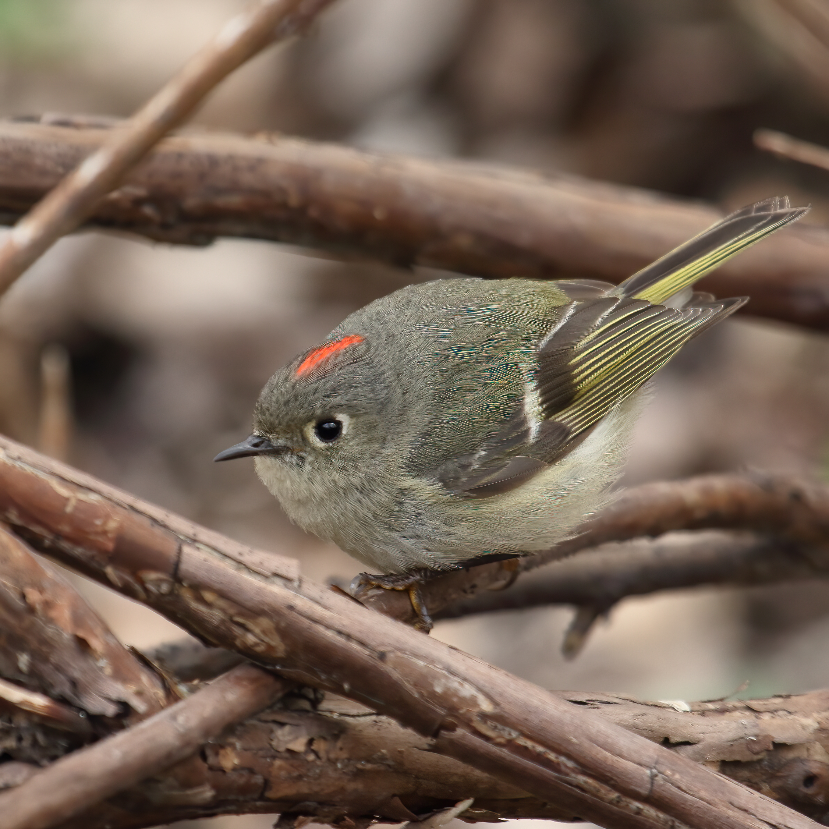 Ruby-crowned kinglet, Réserve naturelle du Marais-Léon-Provancher, Quebec, Canada